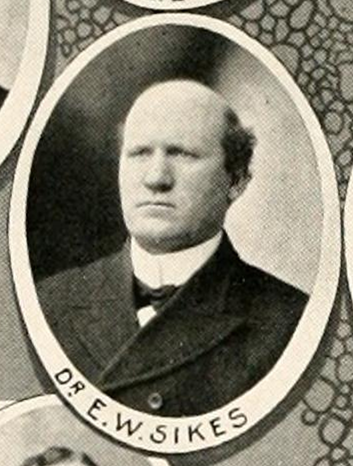 E.W. Sikes, Waske Forest